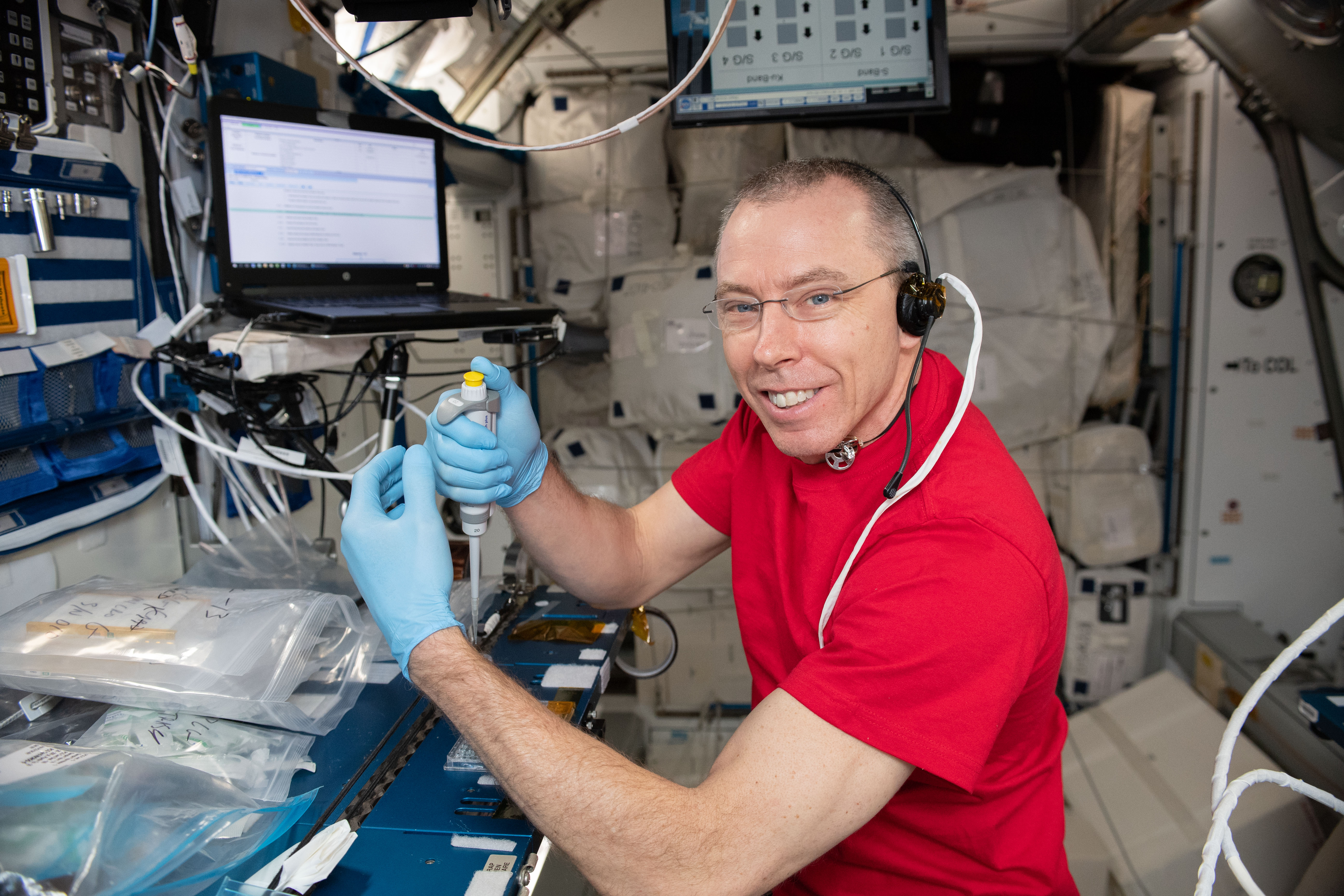 Expedition 56 Commander Drew Feustel is inside the Harmony module working on the Protein Crystal Growth-13 experiment which is seeking to fine-tune the research process in space and help public and private organizations deliver results and benefits sooner.